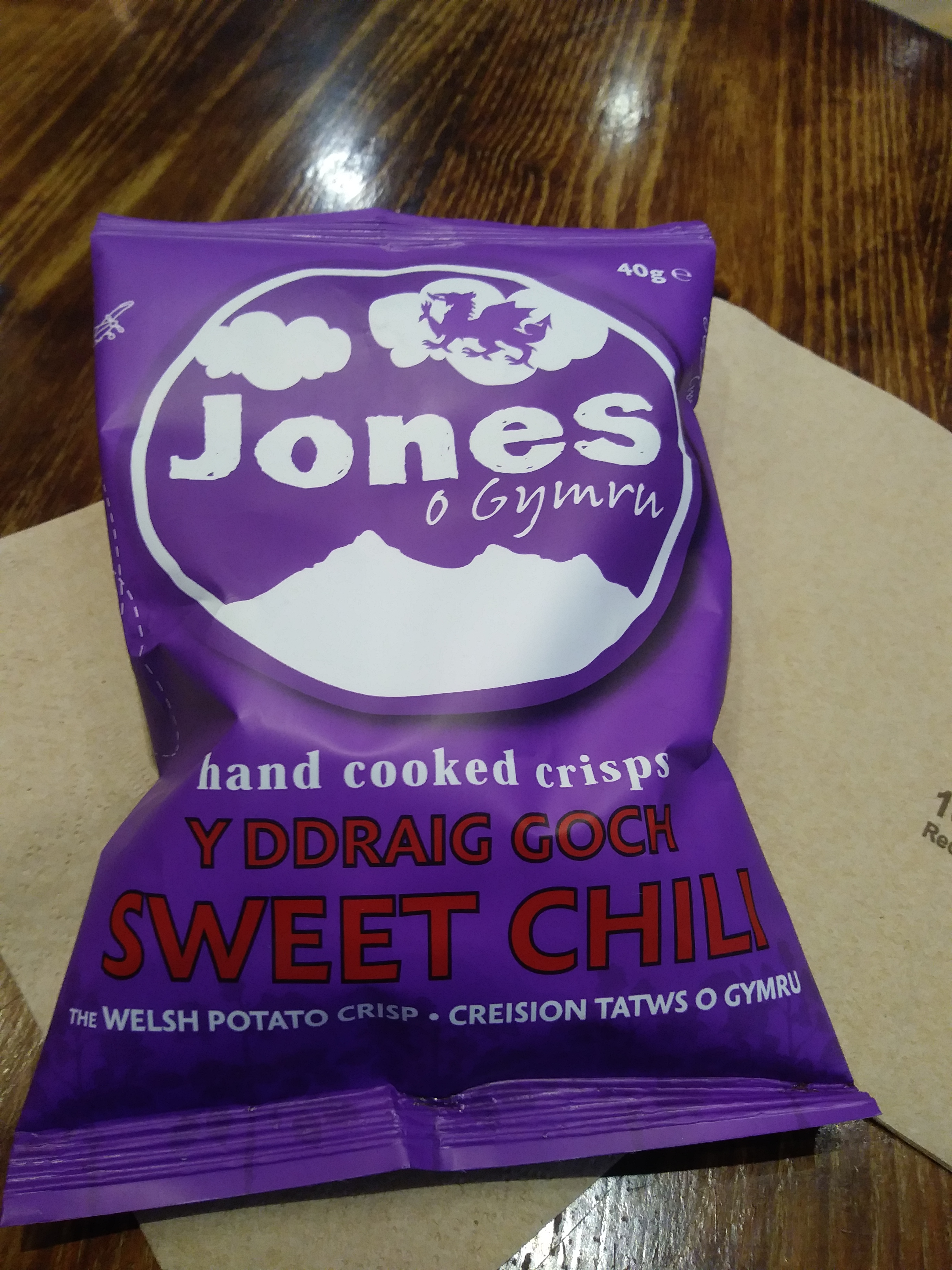 'Jones Crisps' ('Jones o Gymru' - Jones of Wales) package with bilingual branding, Welsh and English. "Y Ddraig Goch" = 'the red dragon'.